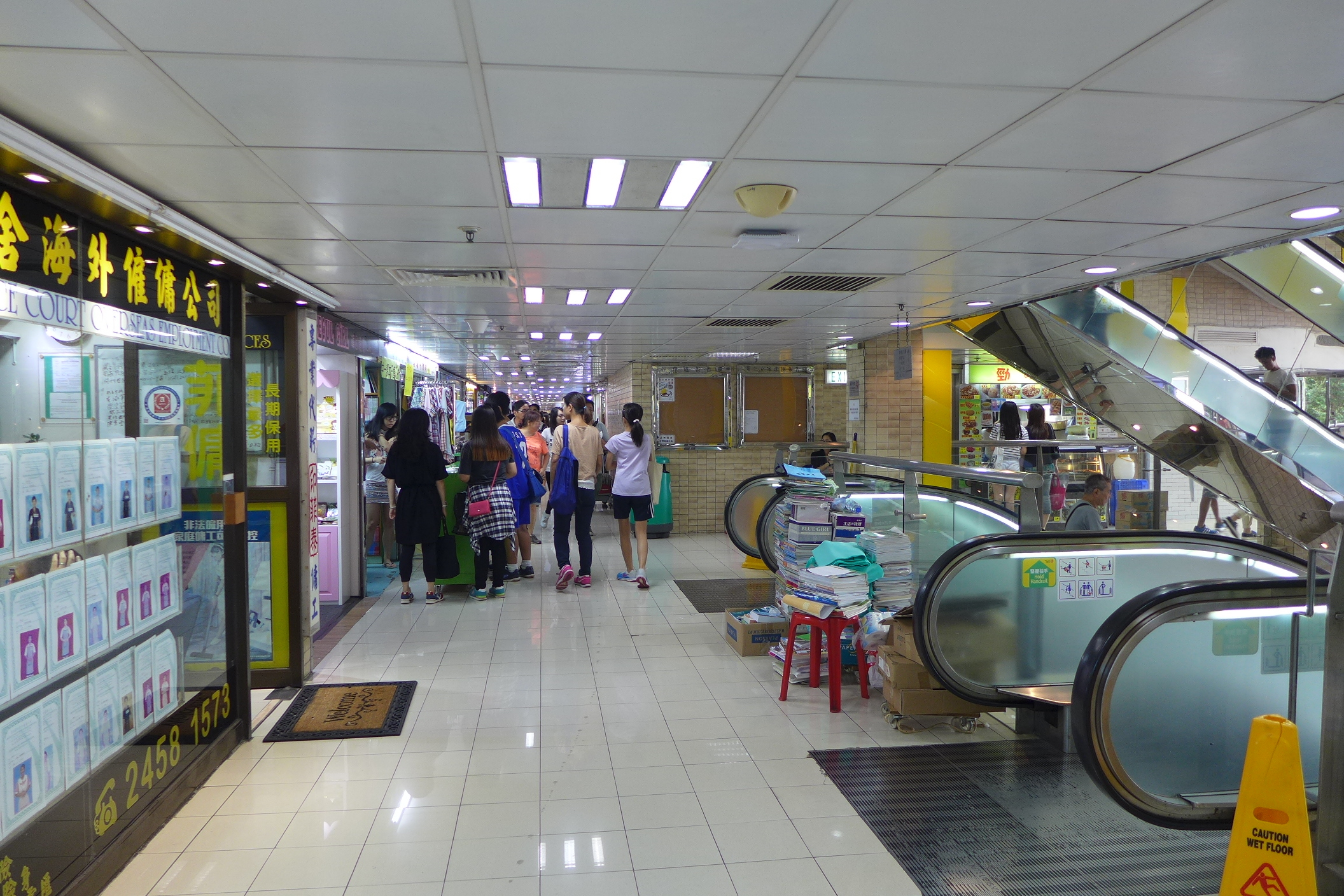 Waldorf Shopping Arcade